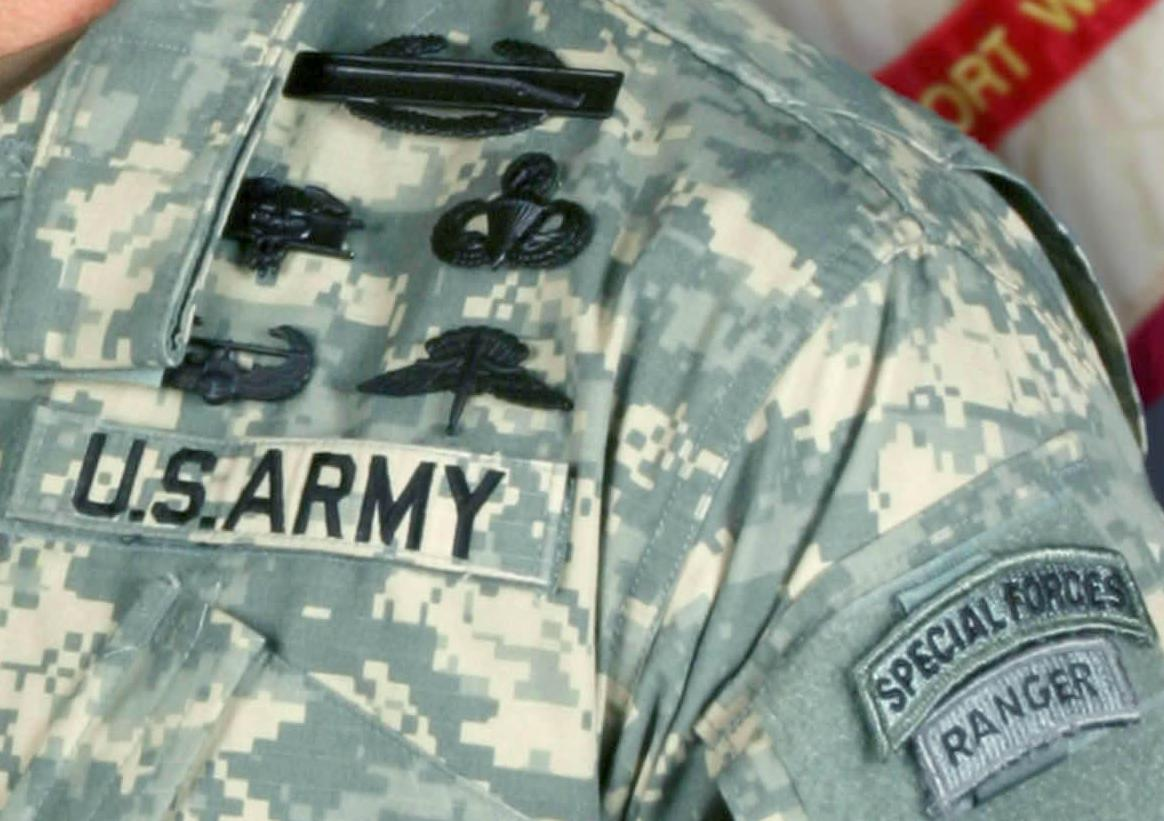 Cropped Department of the Army photo illustrating Army Combat Action and Skill Badges as worn on the Army Combat Uniform, including Combat Infantryman Badge, Expert Field Medical Badge, Parachutist Badge, Air Assault Badge, Military Freefall Parachutist Badge, Special Forces Tab and Ranger Tab